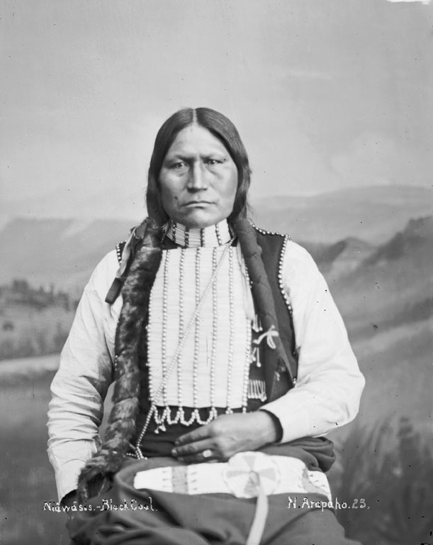 Photograph of Chief Black Coal, an influential Arapaho chief who fought to retain peace between the Arapaho and The United States during the Great Sioux War of 1876.